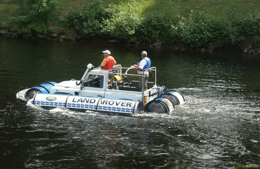 This Land Rover was built in 1988 when Land Rover were sponsoring Cowes Week. It has been in a museum since then but was brought out in Summer 2006 to travel down the Caledonian Canal.